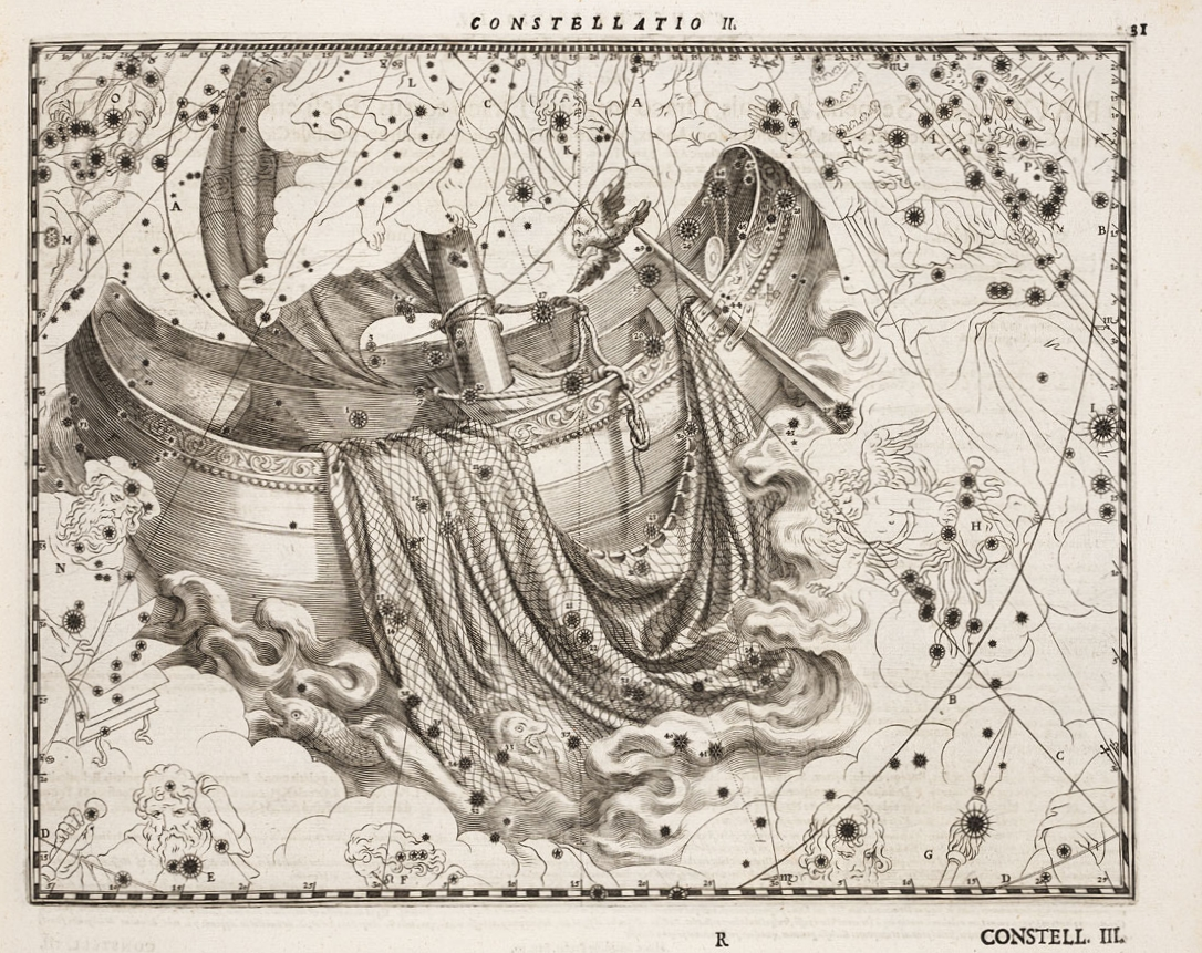 Constellation 2: Saint Peter's Boat